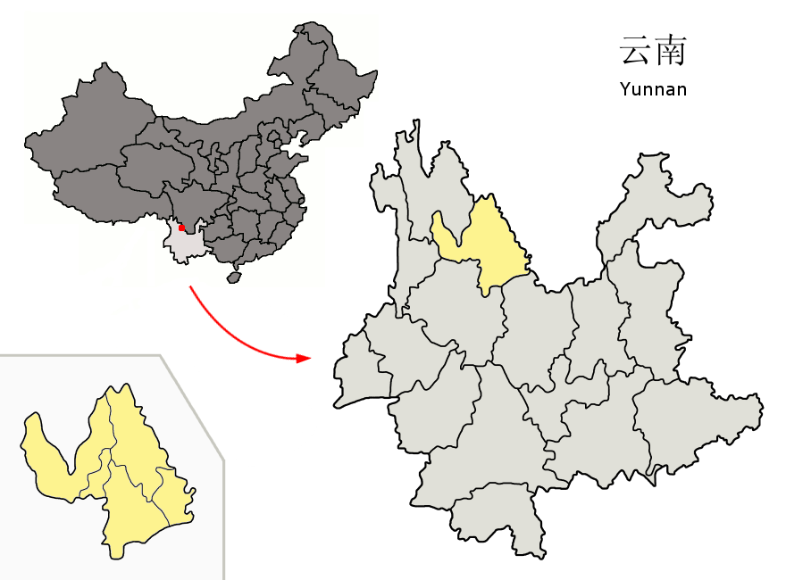 Location of Lijiang prefecture (yellow) within Yunnan province of China Map drawn in september 2007 using various sources, mainly : Yunnan province administrative regions GIS data: 1:1M, County level, 1990 Yunnan Counties map from